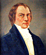 John Tod, US Representative from Pennsylvania